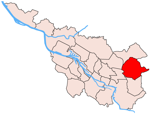 Sub area in bremen, Germany